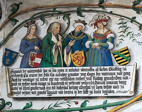 Habsburgersaal - Siegmund (Österreich-Tirol)